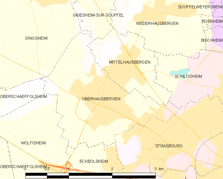 Map of French municipality